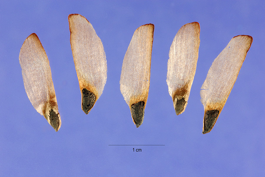 Seeds of Sand Pine (Pinus clausa)